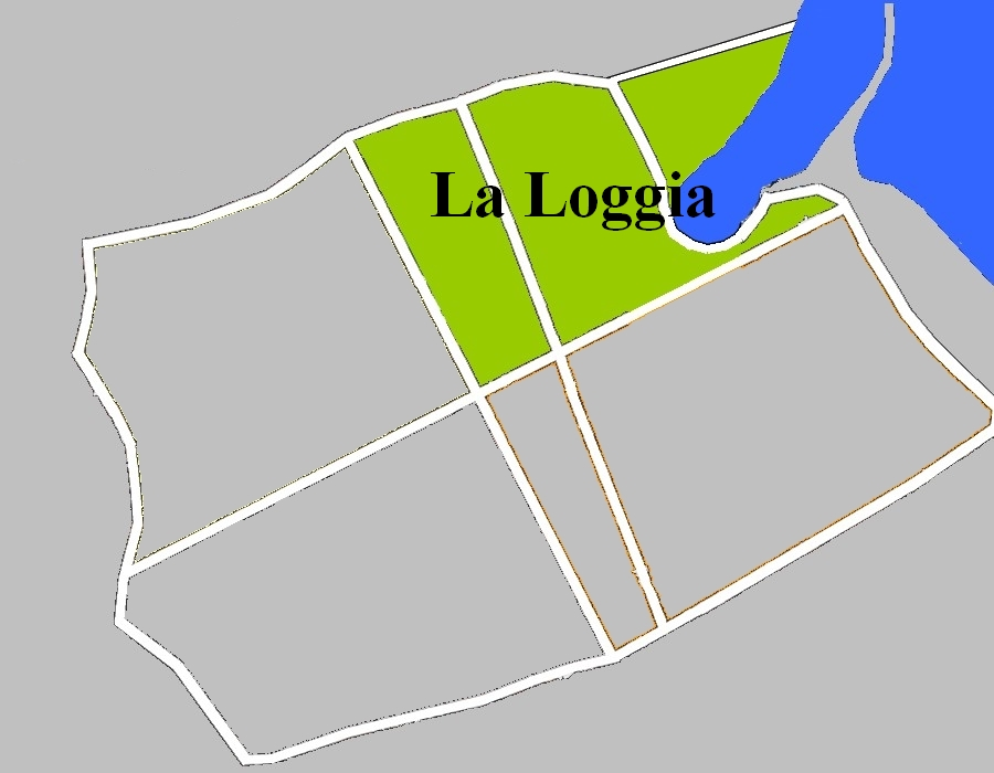 map of La Loggia